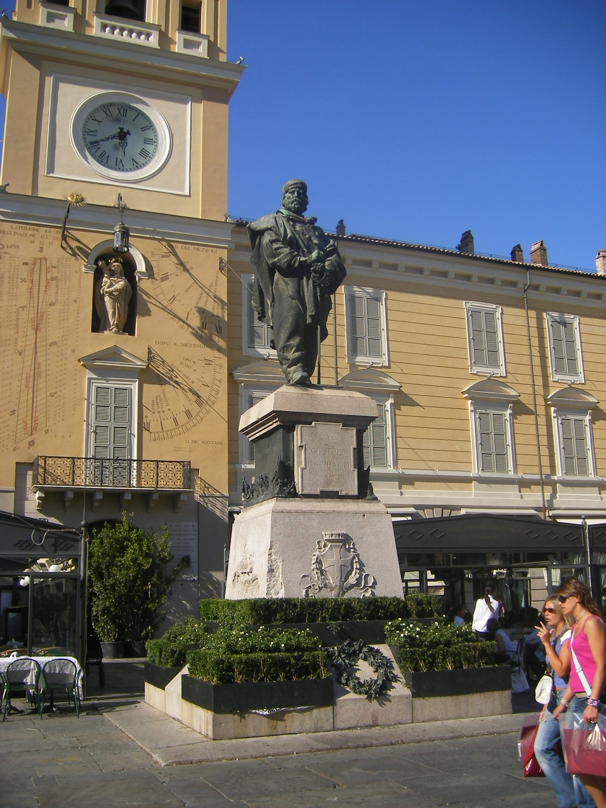 Parma - Statue of Giuseppe Garibaldi and the Town Hall.